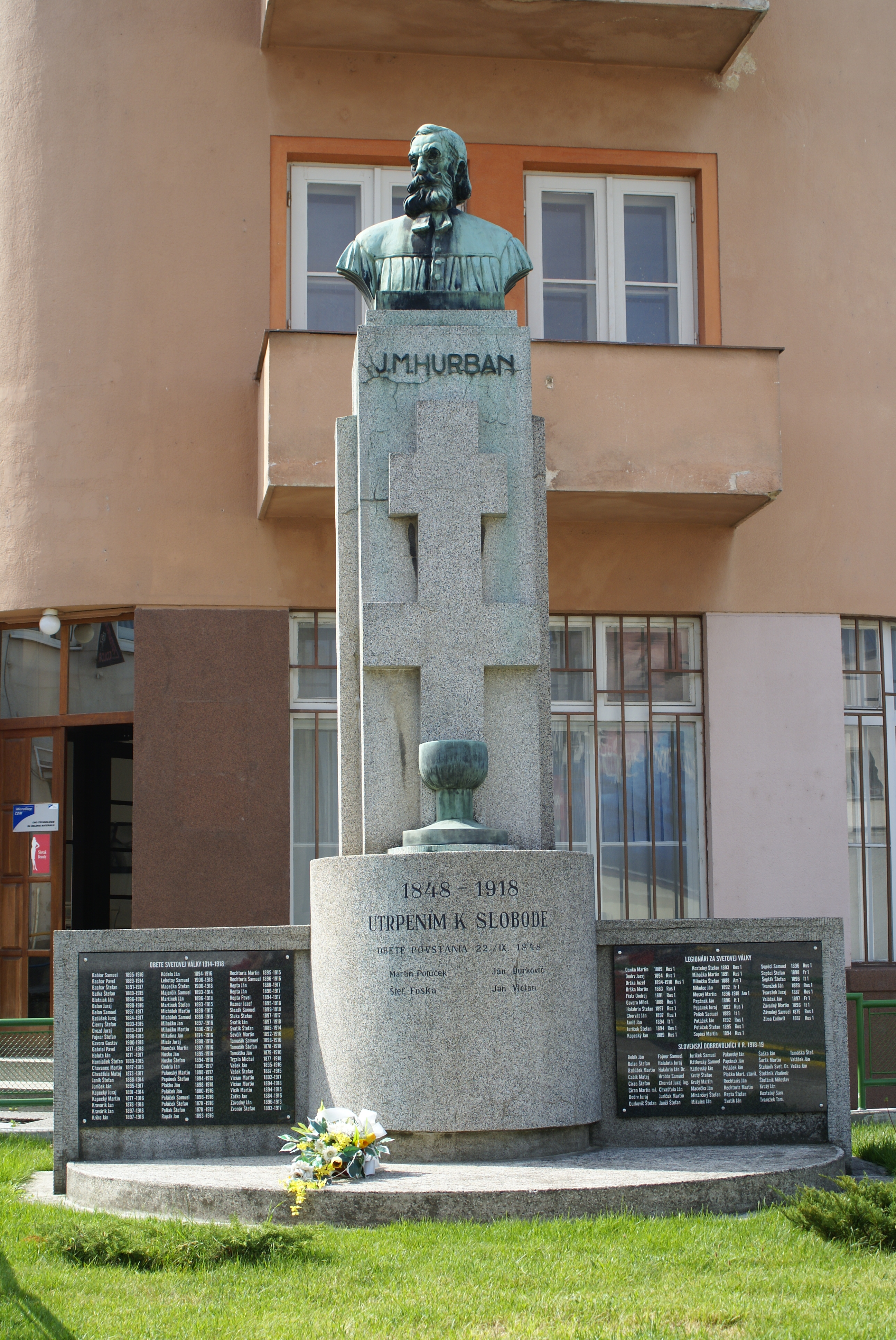 Brezová pod Bradlom, Slovak Republic